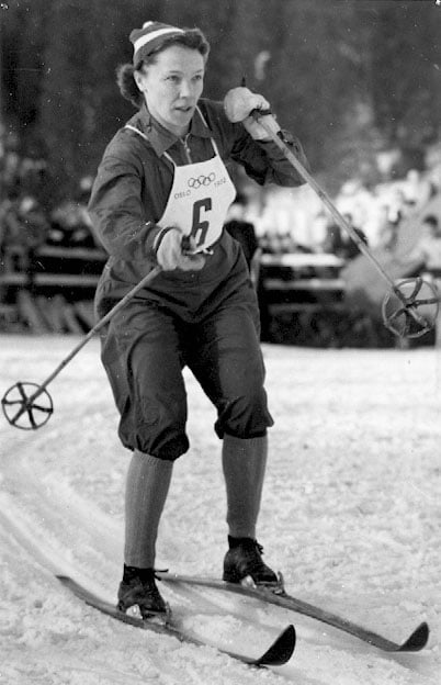 Lydia Wideman at the 10 km race, 1952 Oslo Olympics